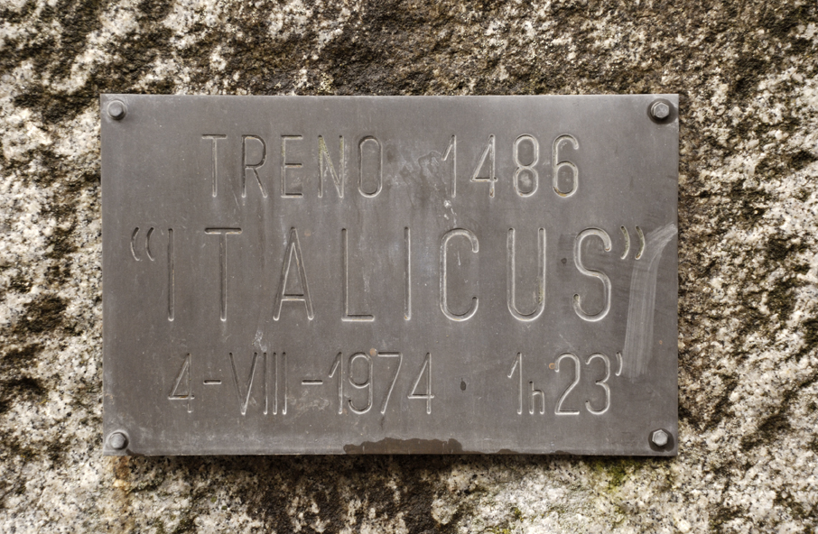 Italicus Express massacre. San Benedetto Val di Sambro, Bologna, Italy. August 4, 1974 1:23 AM. Commemorative monument (plaque).